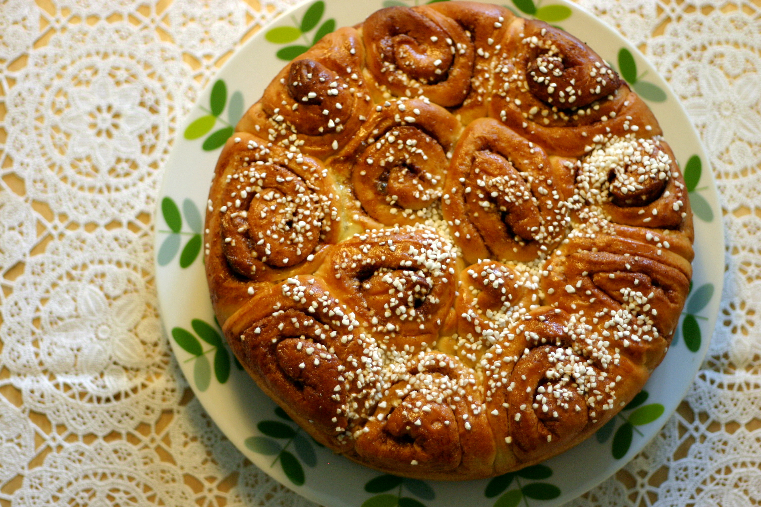 Butterkaka (connected cinnamon buns)